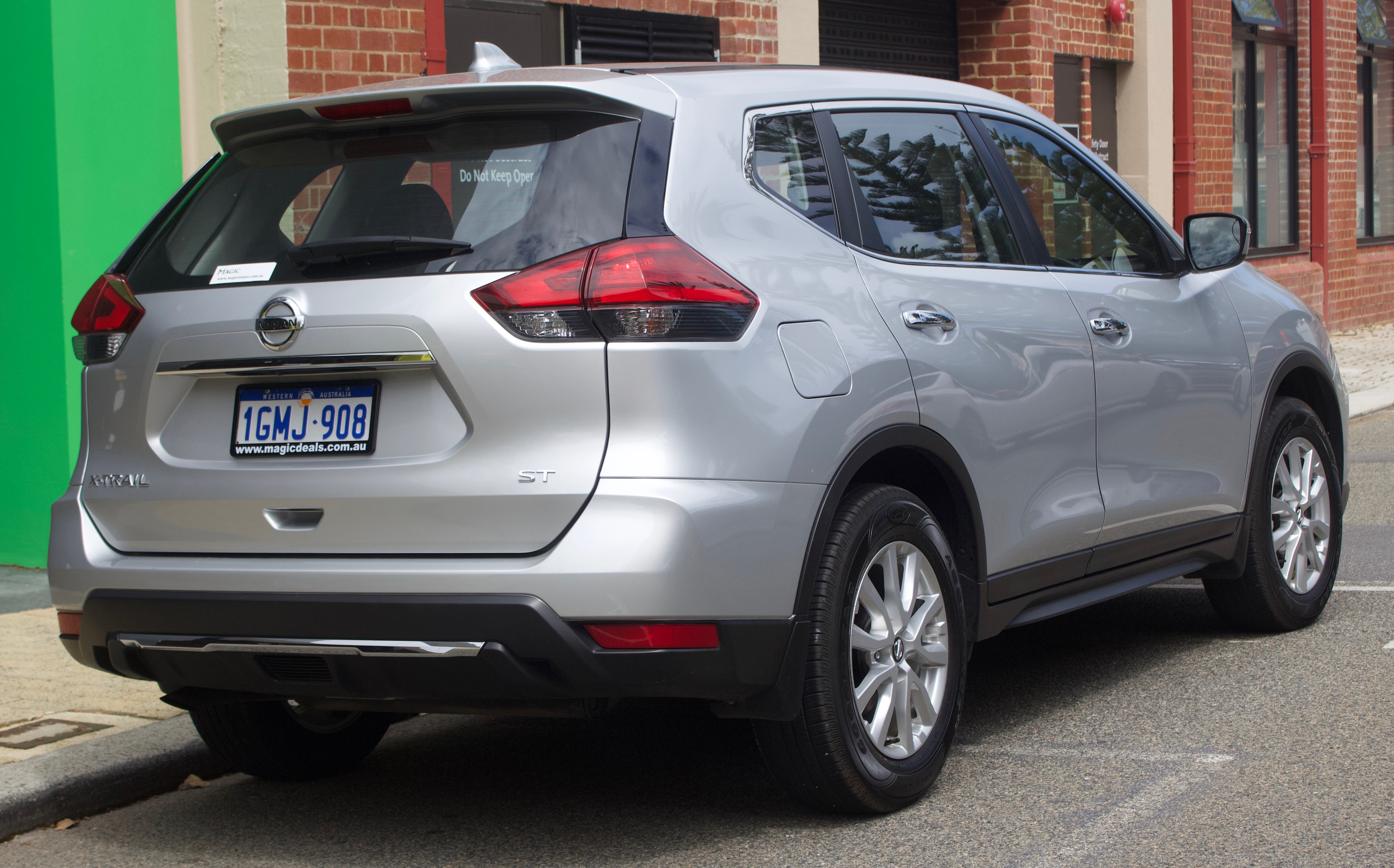 2018 Nissan X-Trail (T32) ST wagon. Photographed in Fremantle, Western Australia, Australia.